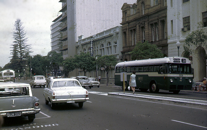 Perth, Western Australia in 1968. Leyland Worldmaster bus.